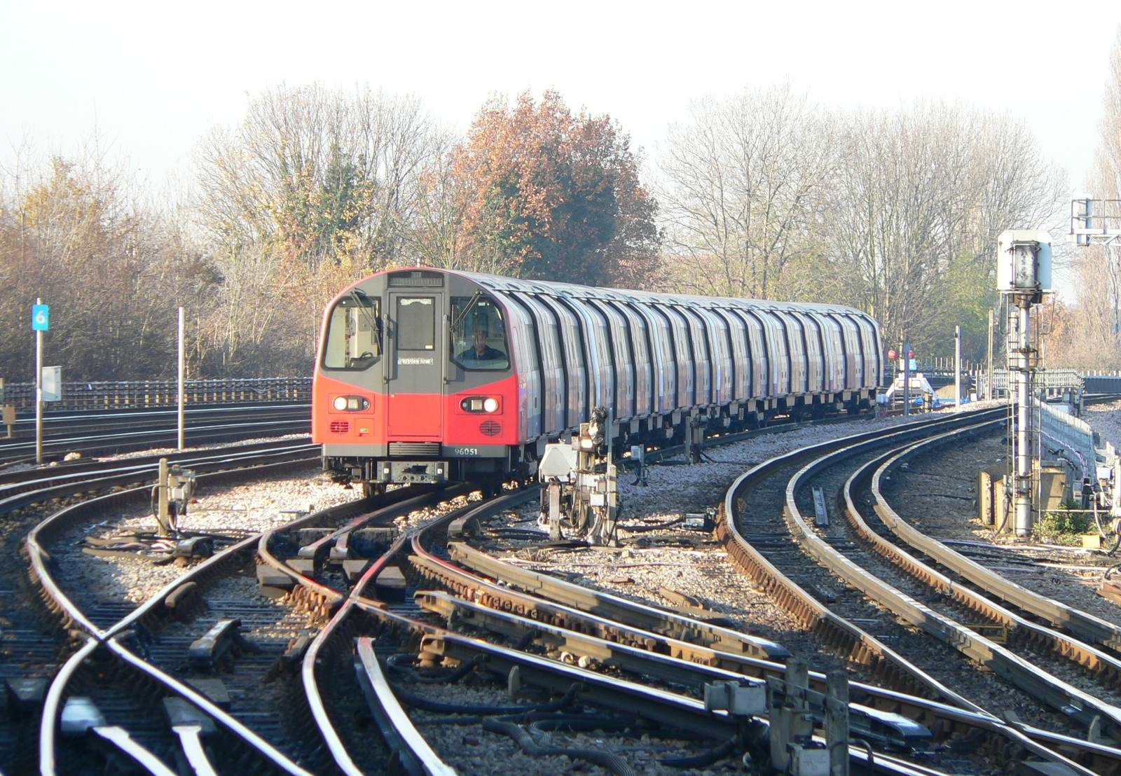 A Jubillee Line 1996 tube-stock train waits in the reversing siding at the north end of Wembley Park station before commencing a southbound service.